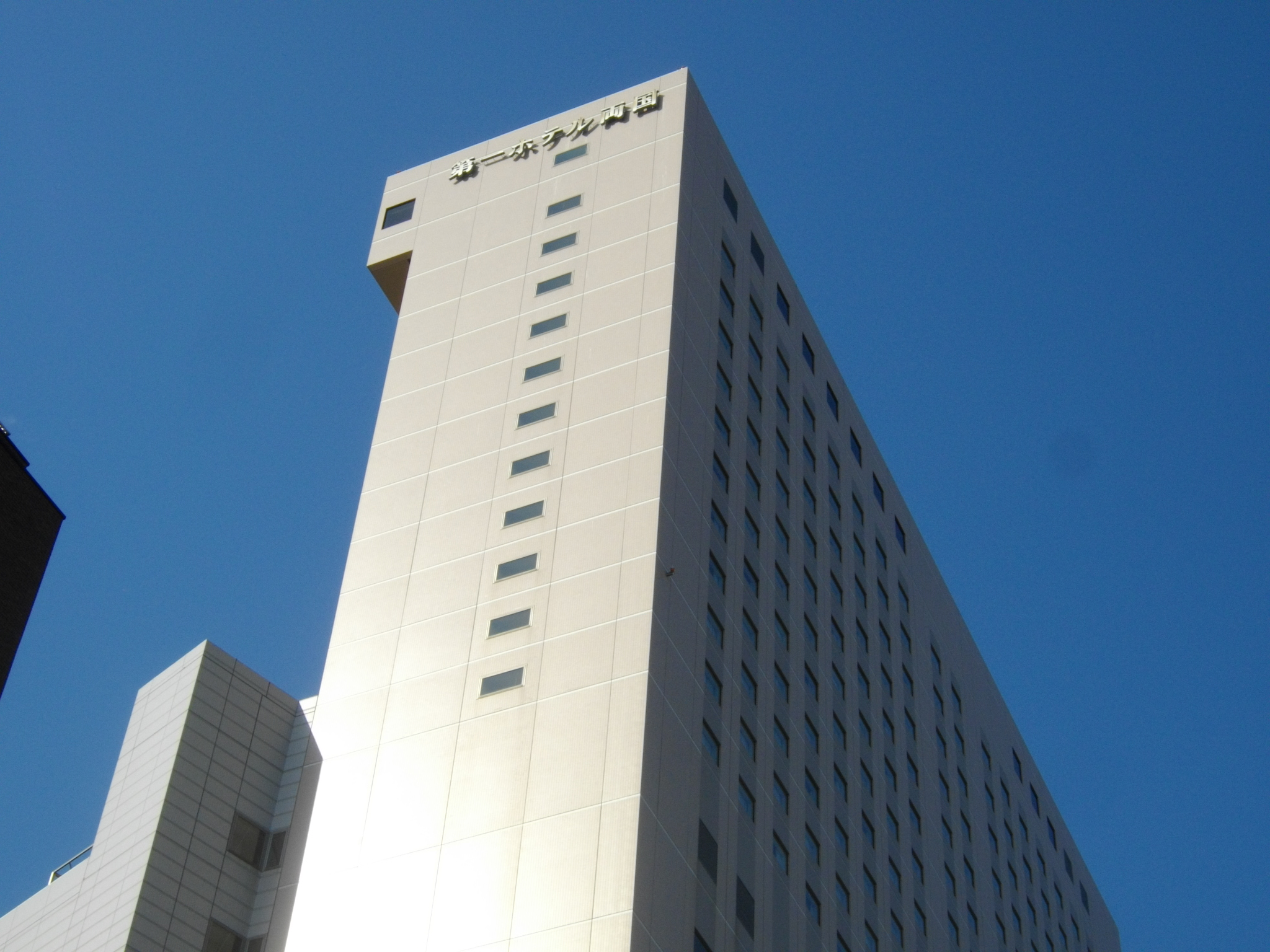 Dai-ichi Hotel Ryogoku